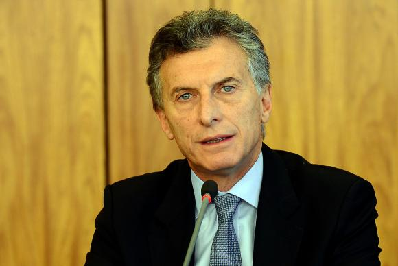 The president of Argentina, Mauricio Macri